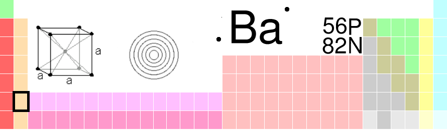 Image by GreatPatton and released under terms of the GNU FDL on 20 July 2003.